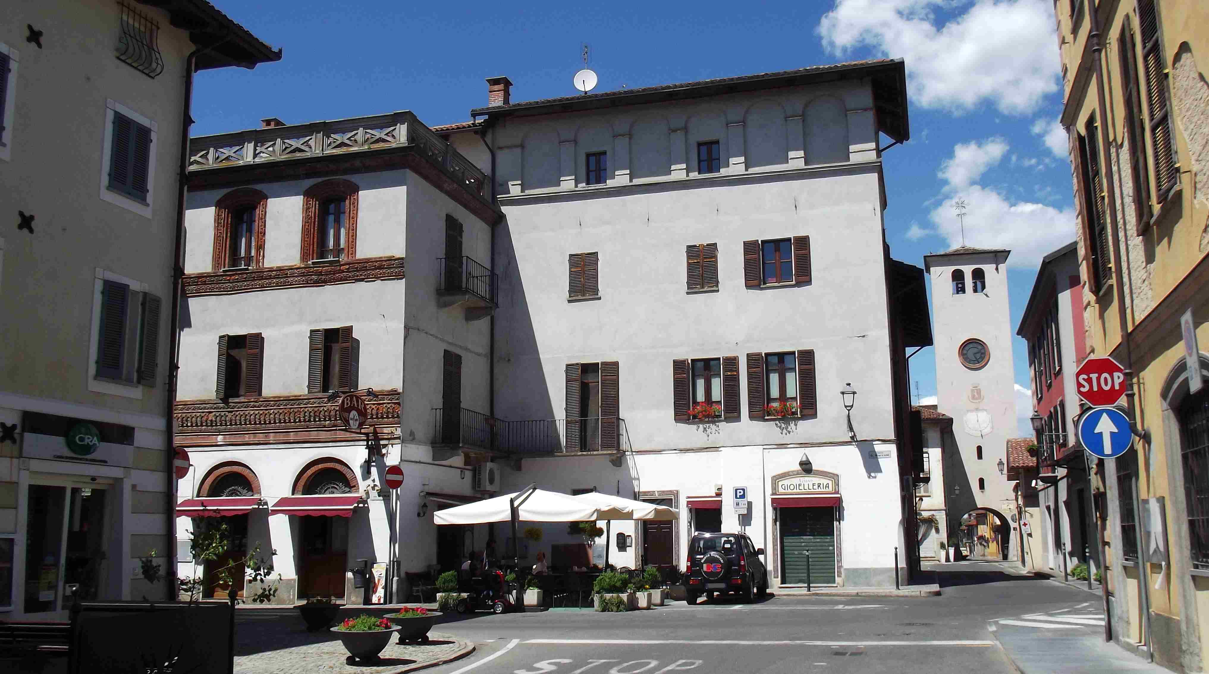 Villanova d'Asti (AT, Italy): town centre